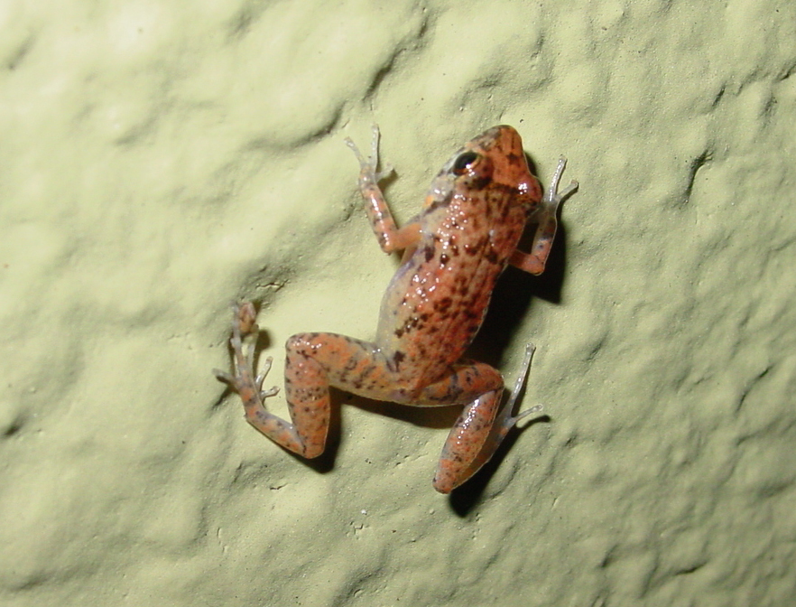 Eleutherodactylus planirostris